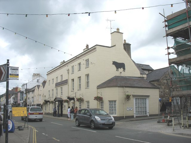 Ye Olde Bull's Head Inn, Castle Street